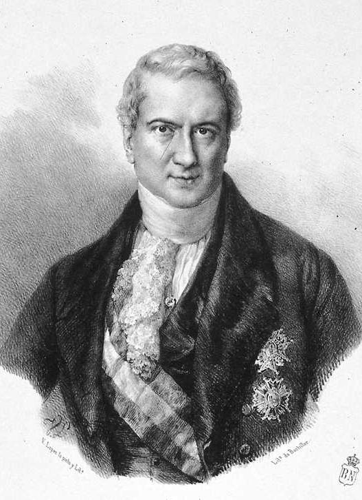 Spanish Politician José Ferraz y Cornel